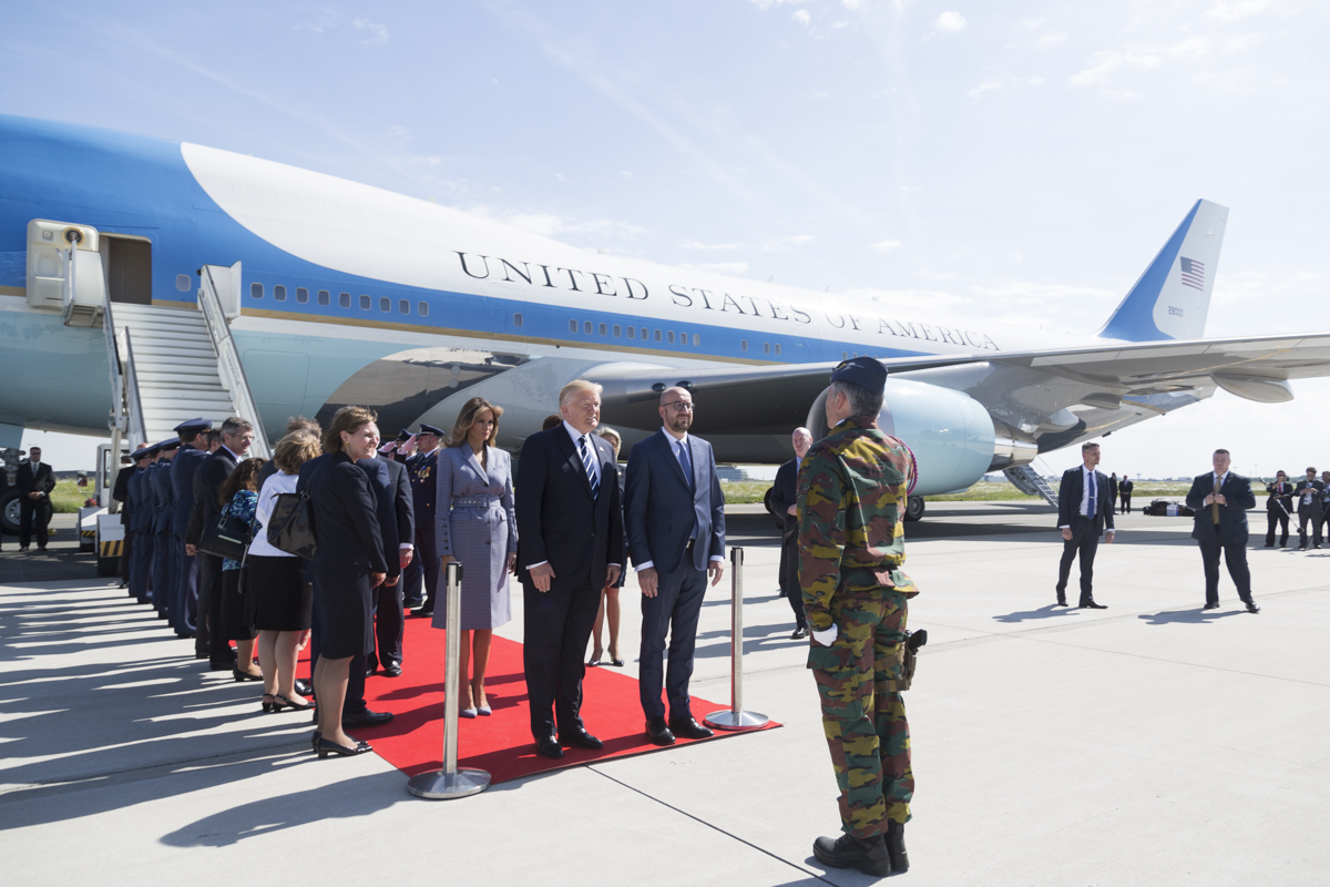 President Donald Trump and First Lady Melania Trump are welcomed by Belgium Prime Minister Charles Michel, on their arrival to Brussels International Airport in Brussels, Belgium. (Official White House Photo by Shealah Craighead)